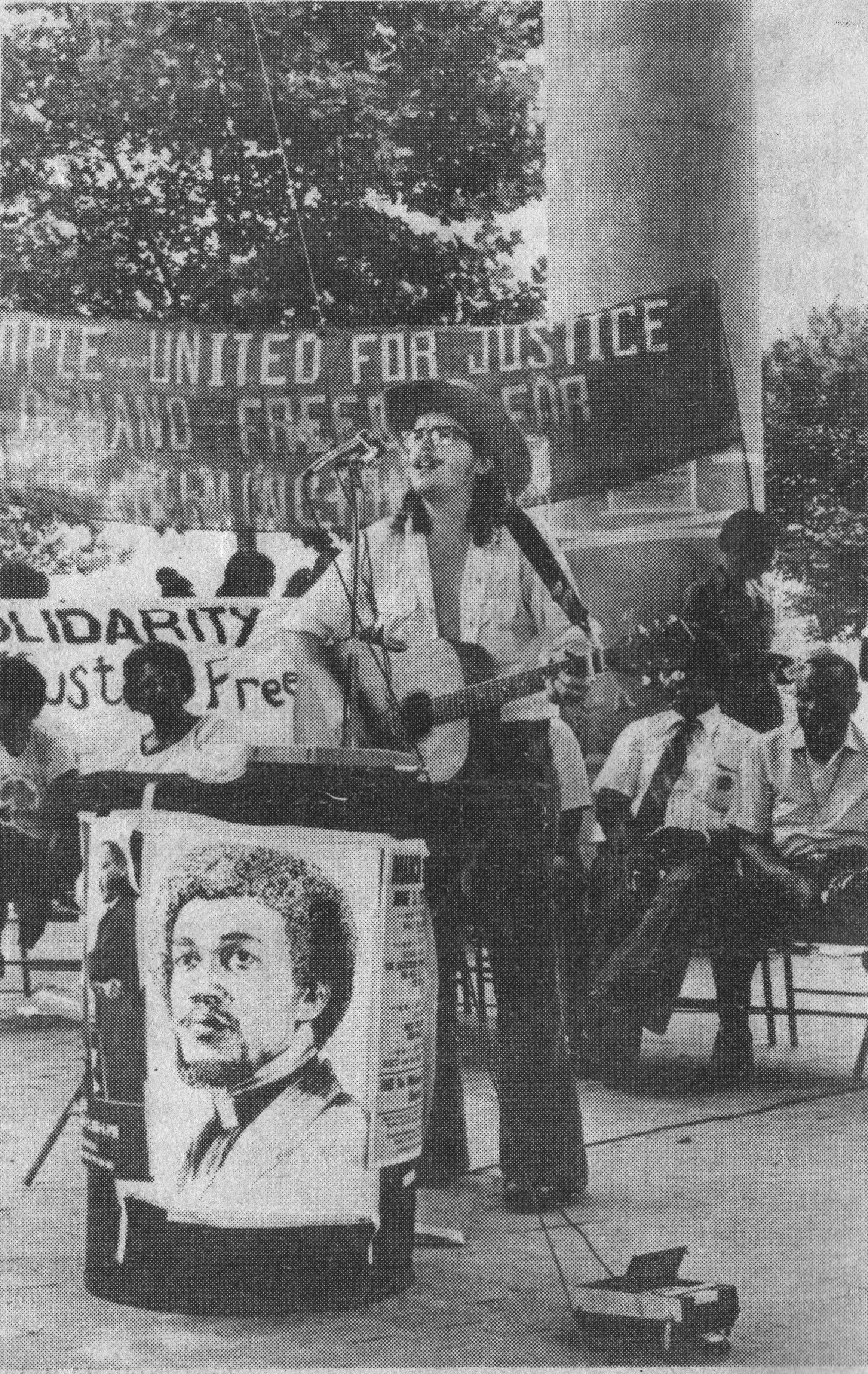 Wilmington 10 Civil Rights Rally circa 1977 featuring folksinger Gary Green